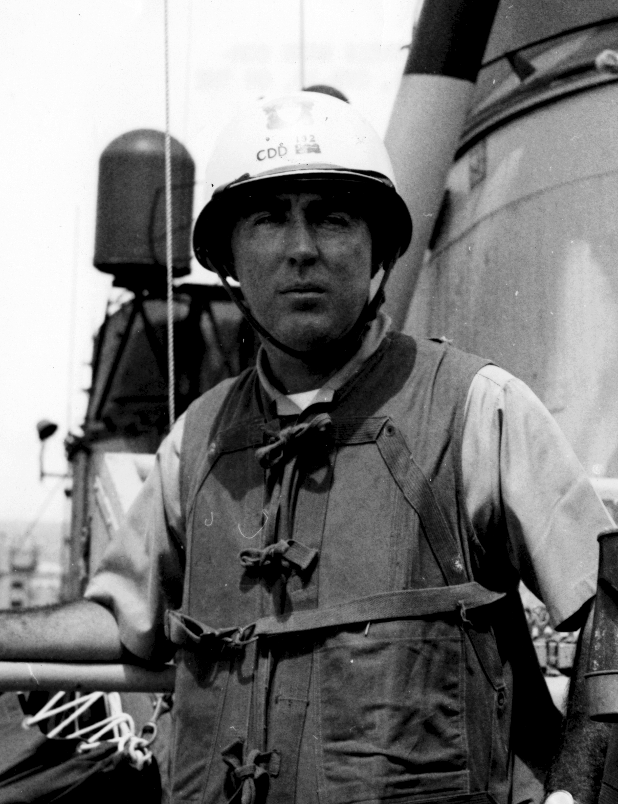 Captain John J. Herrick, USN, Commander Destroyer Division 192 of the destroyer USS Maddox (DD-731), on board Maddox on 13 August 1964.